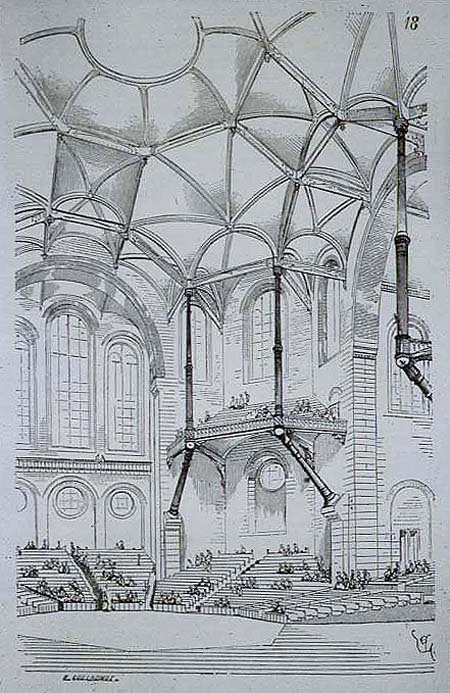 Eugene Viollet-le-Duc, design for a Concert Hall, dated 1864. Expressing Gothic structural principles in stone, brick and cast iron. Published in Entretiens sur l'Architecture